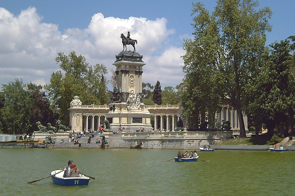 Monument to Alfonso XII of Spain in the Retiro Park (Jardines del Buen Retiro) in Madrid. It was projected in 1901 by architect José Grases Riera, built of stone and bronze from 1902 to 1922, and inaugurated on July 3rd, 1922. Sculptures were made by 22 artists.